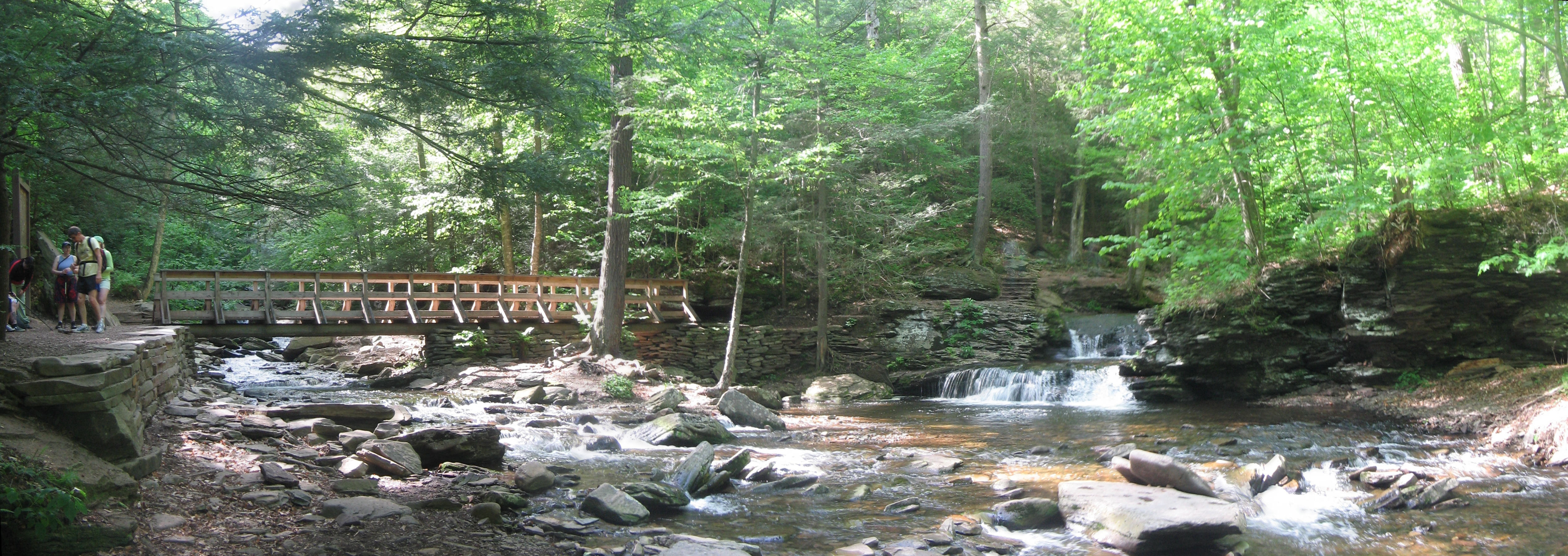 Waters Meet, the confluence of the two branches of Kitchen Creek, taken from the Waterfalls trail in Ricketts Glen State Park, Luzerne County, Pennsylvania, USA. The branch in Ganoga Glen is on the left with the footbridge over it. The Glen Leigh branch is on the right.